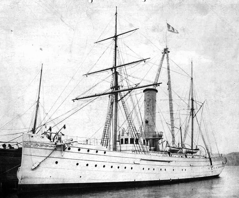 Photo by C. B. Webster and Co., Boston